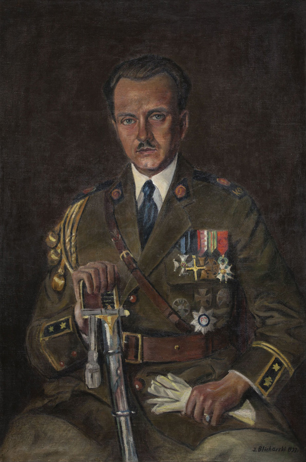 Portrait of Marian Zyndram-Kościałkowski by Józef Blicharski (1886-1941).